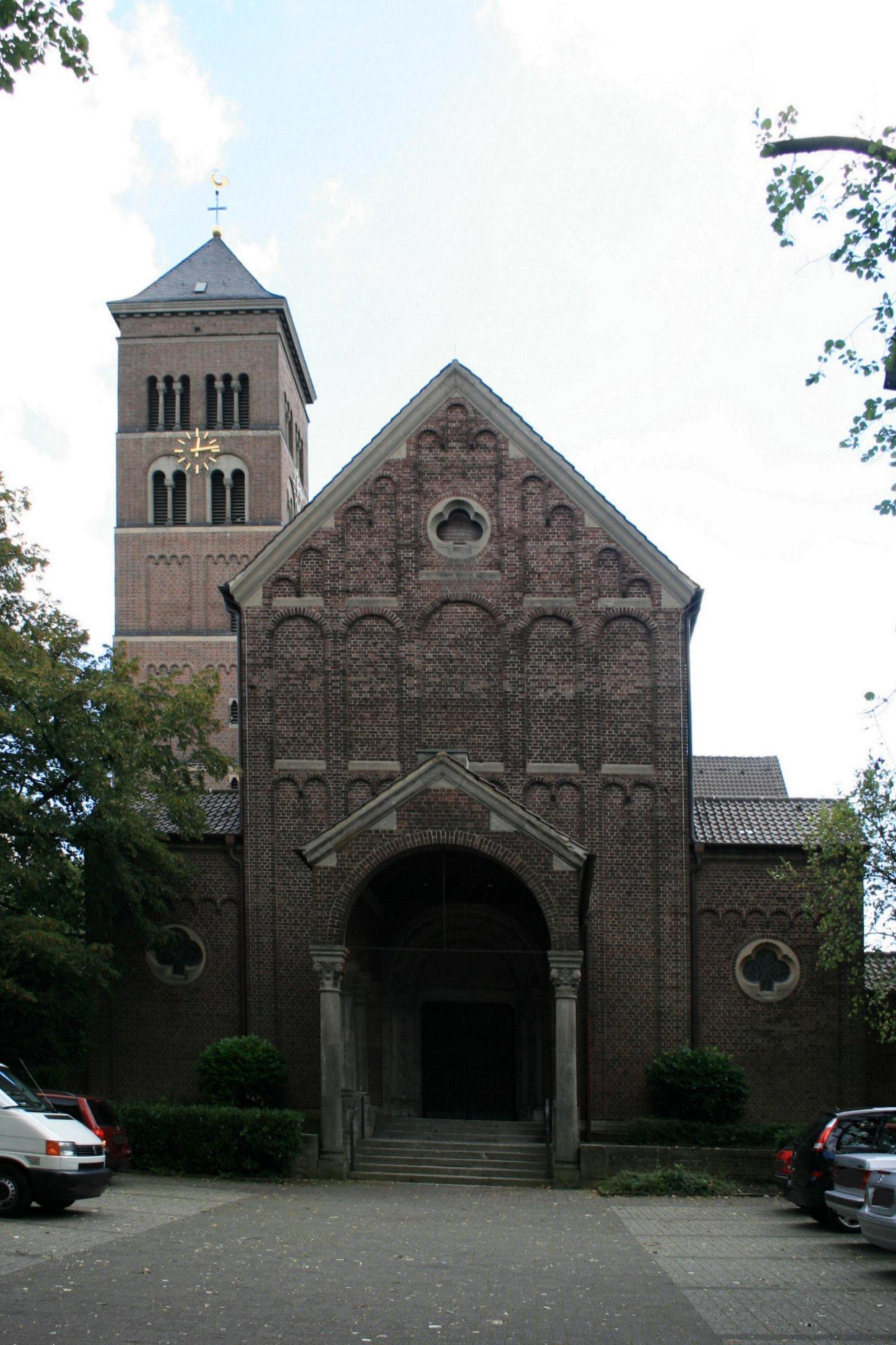 Cultural heritage monument No. P 003 in MönchengladbachThis is a photograph of an architectural monument. 003